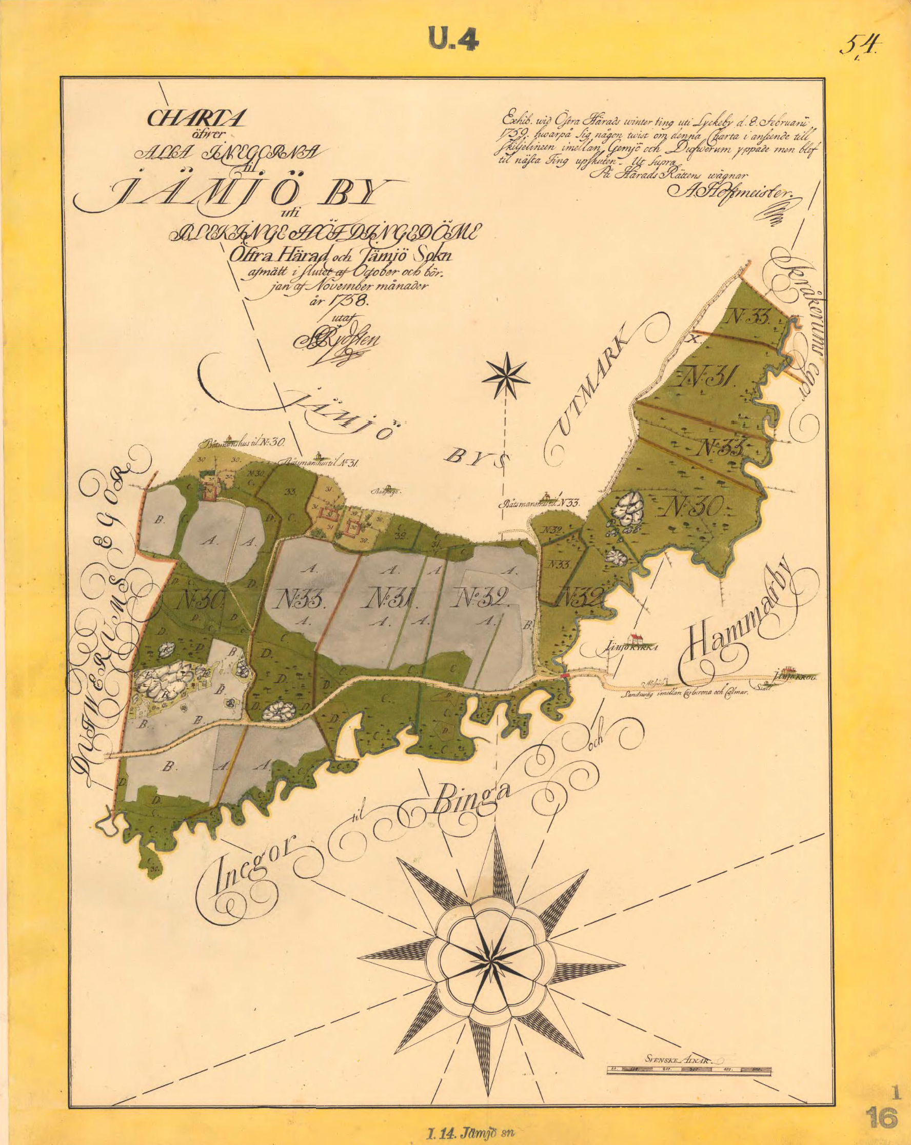 Historical chart of Jämjö, Sweden